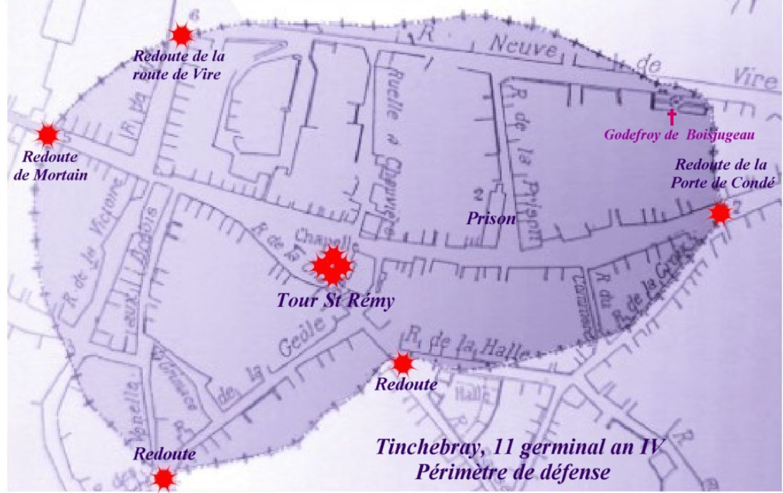 Tinchebray, Orne, Plan de défense, bataille contre les chouans de 1796